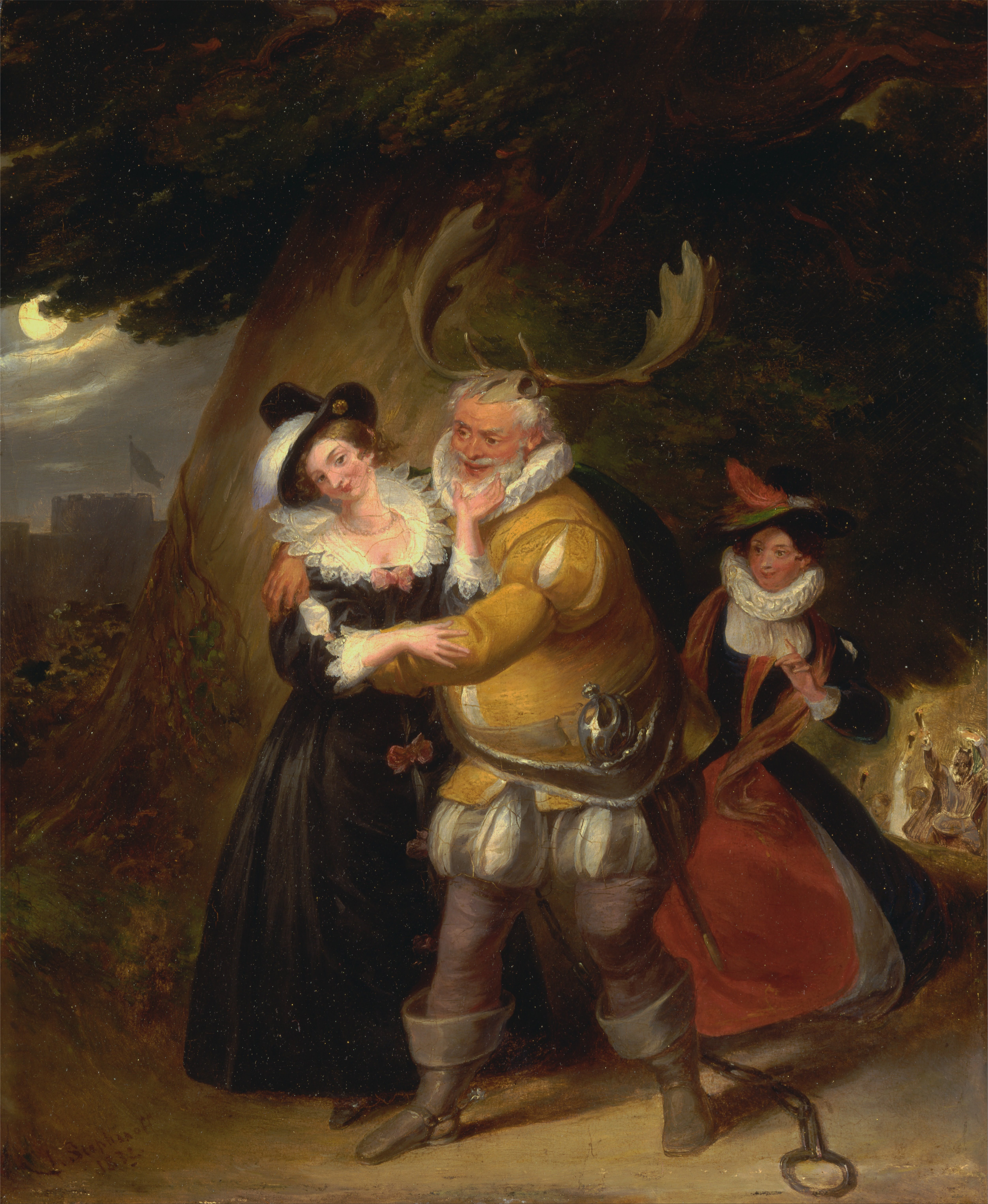 depicts The Merry Wives of Windsor (Q844836) play